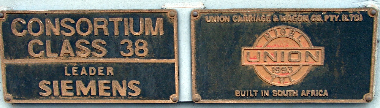 Spoornet Class 38-000 38-040 builders' plates Location: Sentrarand, Gauteng